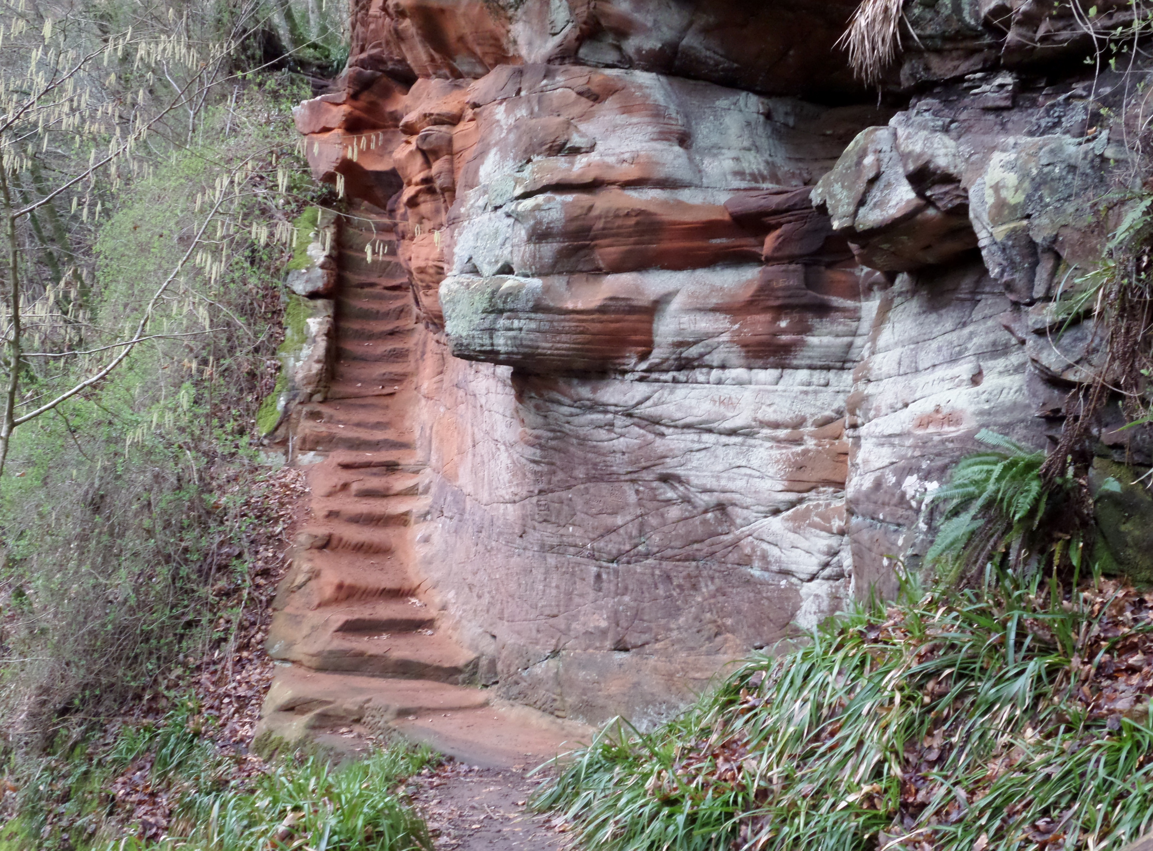 The steps at Peden's Pulpit, Coilsholm Wood, Failford, Ayrshire